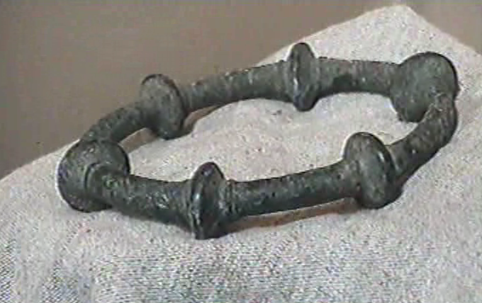 Torc. Jewellery artifacts from Bronze Age found in Ukraine.